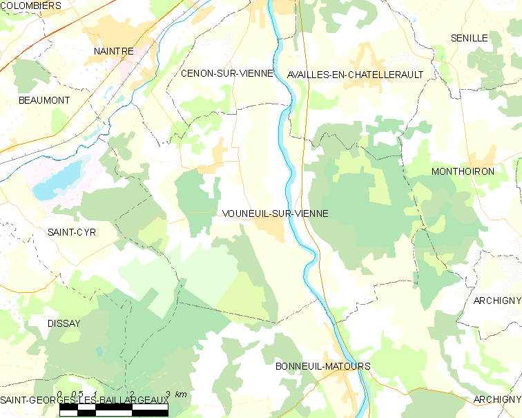 Map of French municipality Vouneuil-sur-Vienne